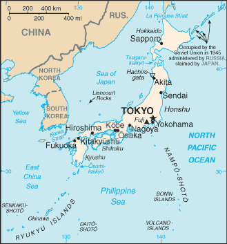 Map of Japan showing major cities and island names.